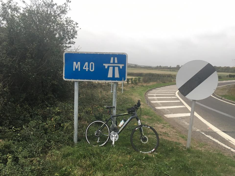 British motorway start of regulations signage